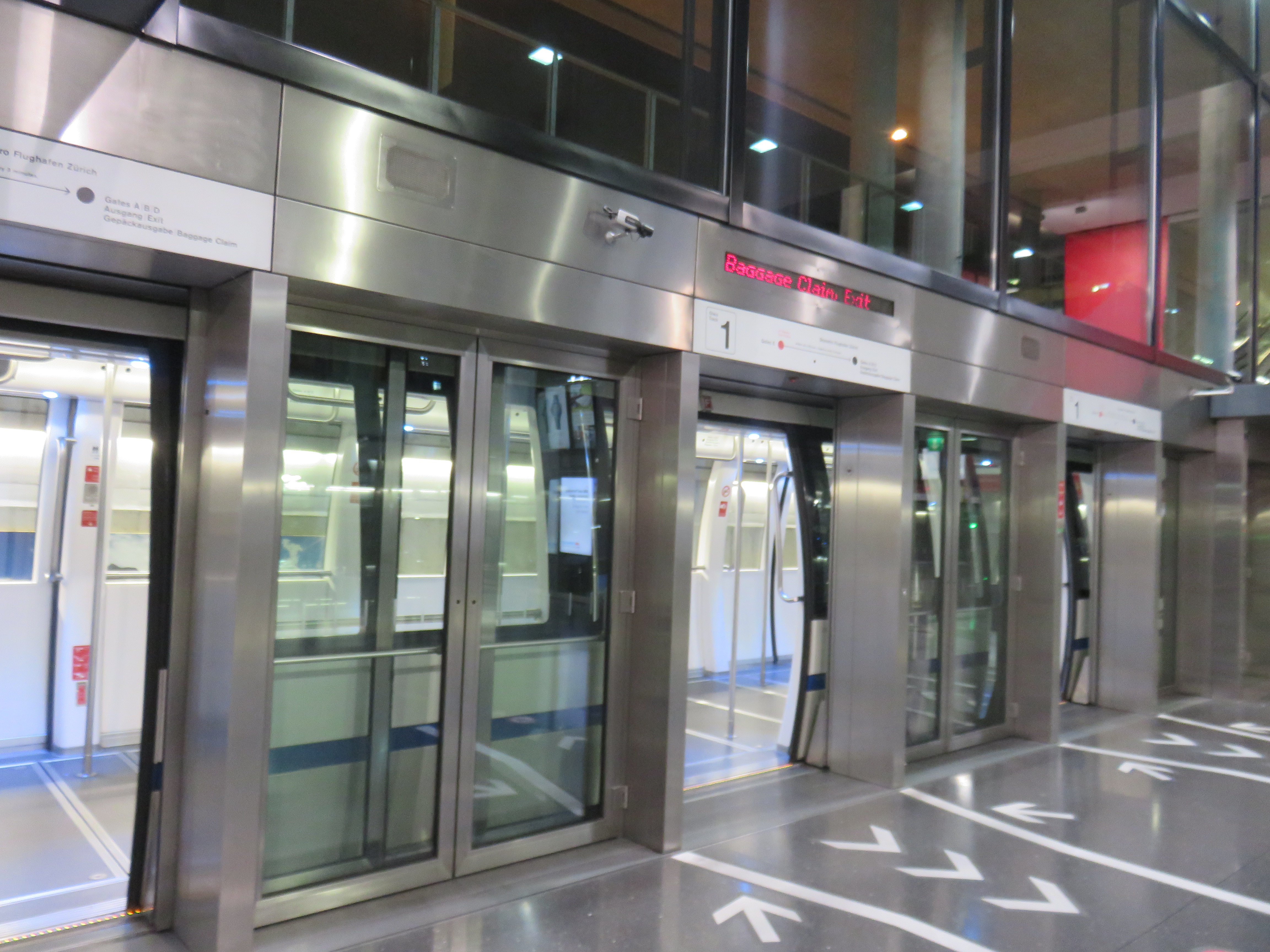 Zurich International Airport